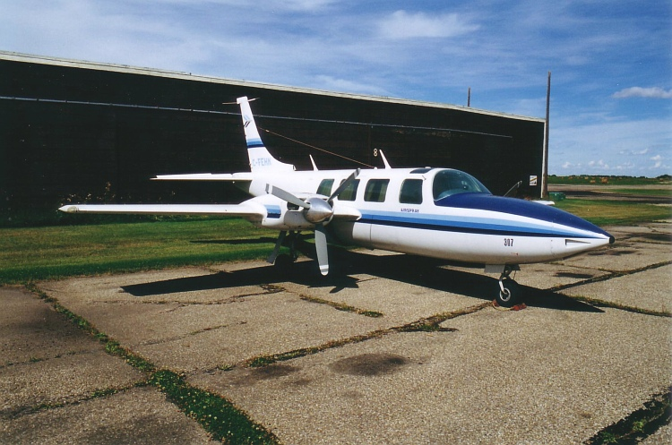 I took this photo of an Air Spray Ted Smith Aerostar 600 at Red Deer, Alberta in 2000.